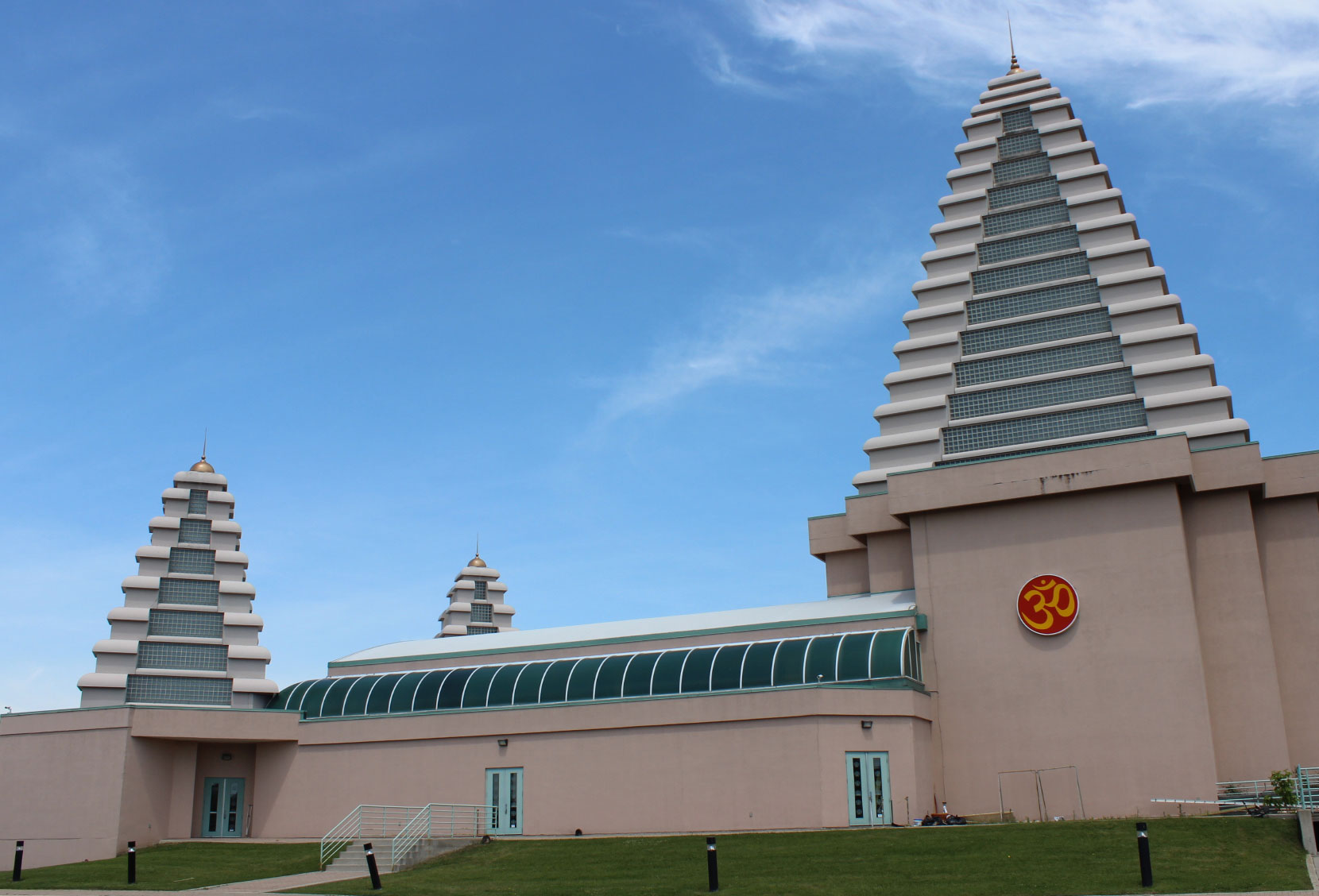 Hindu Sabha Temple is one of the largest Hindu temples in Canada. It is located in the outskirt of Toronto, in the city of Brampton, Ontario